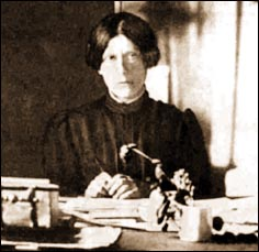 Maria Alexandrovna Spiridonova